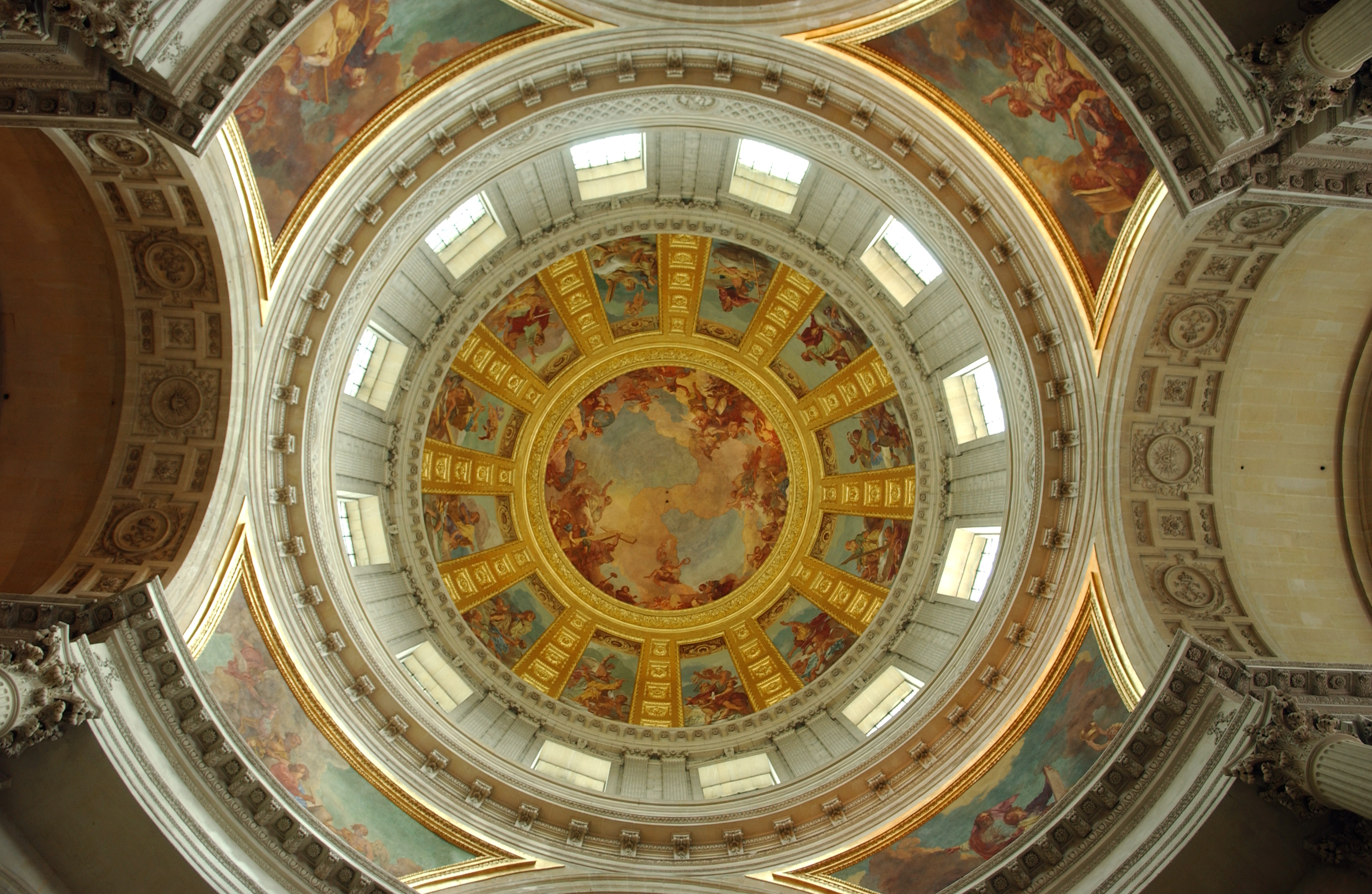 Intérieur du Dôme